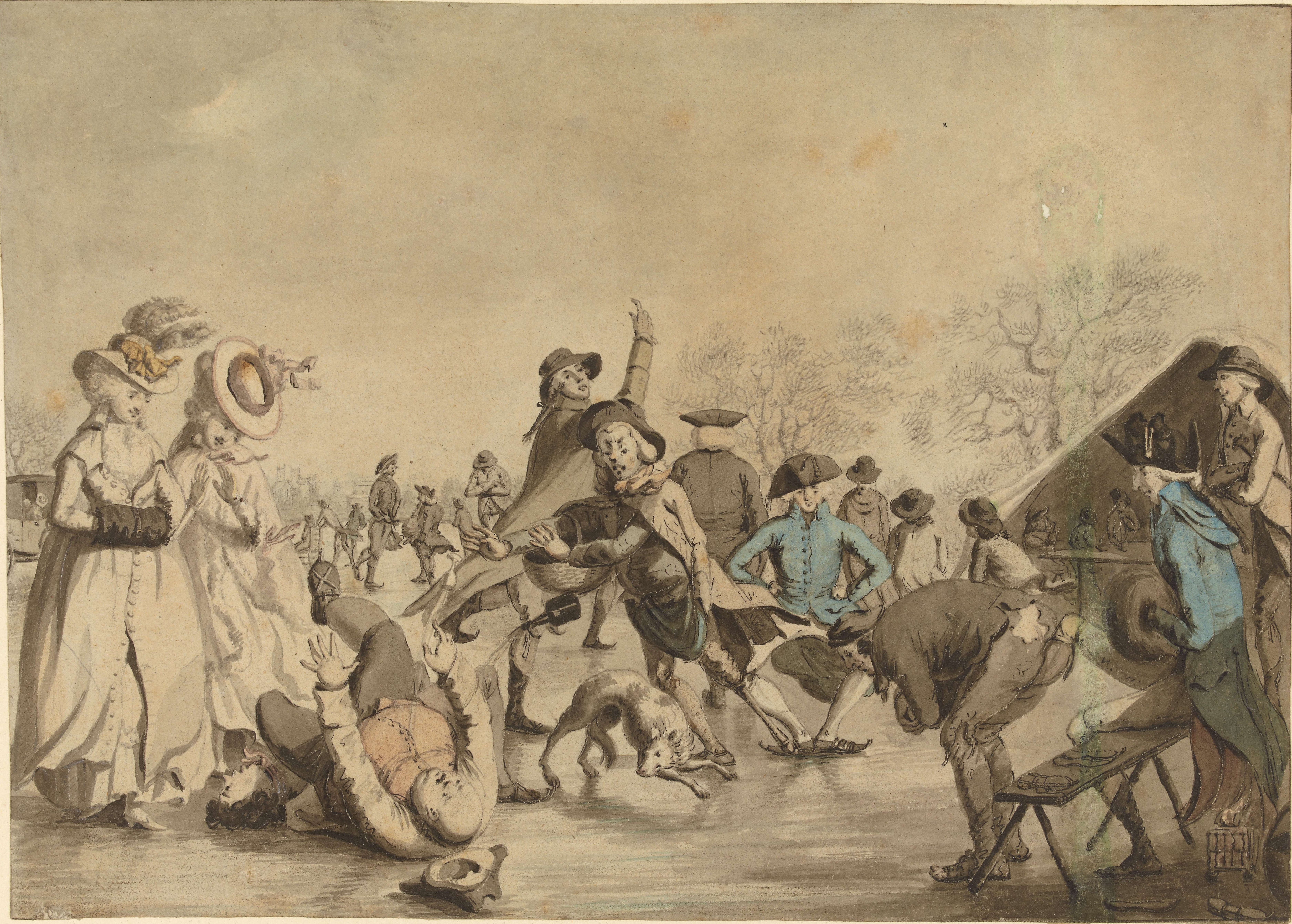 drawing showing two men who have fallen on the ice